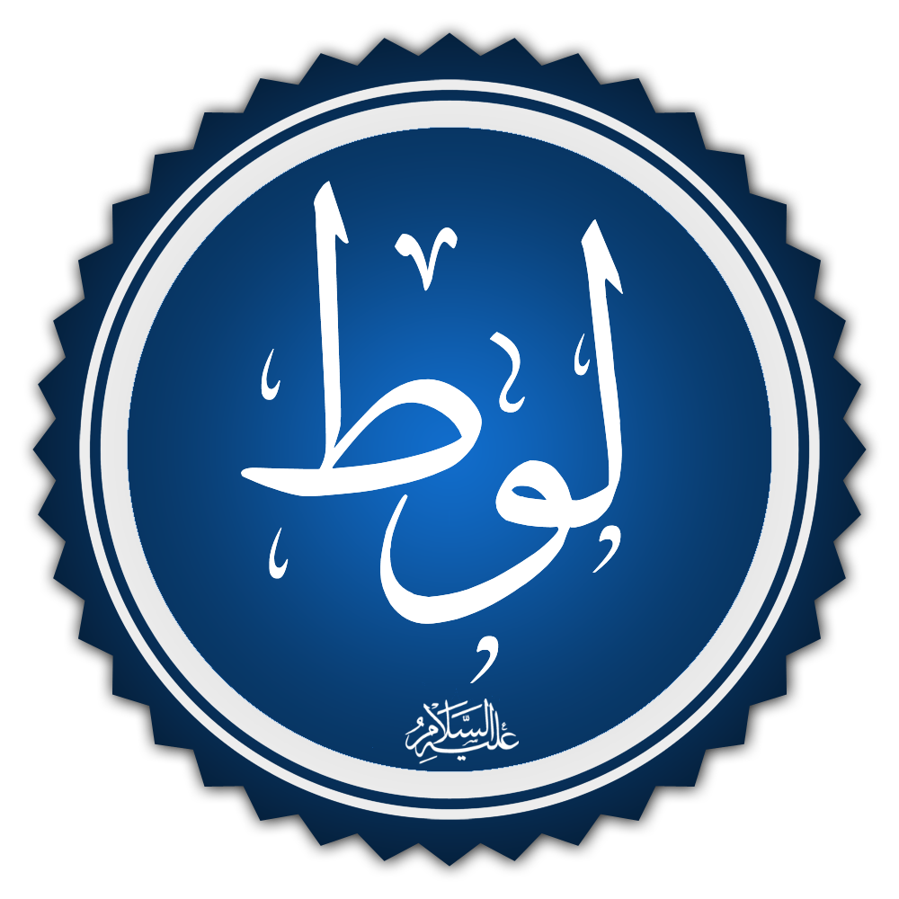 Lot Prophet